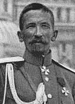 Russian General Lavr Kornilov (1870- died 1918). This is photo, made and published in Russia in 1917, and widely reproduced in Europe in 20-ties of XX century